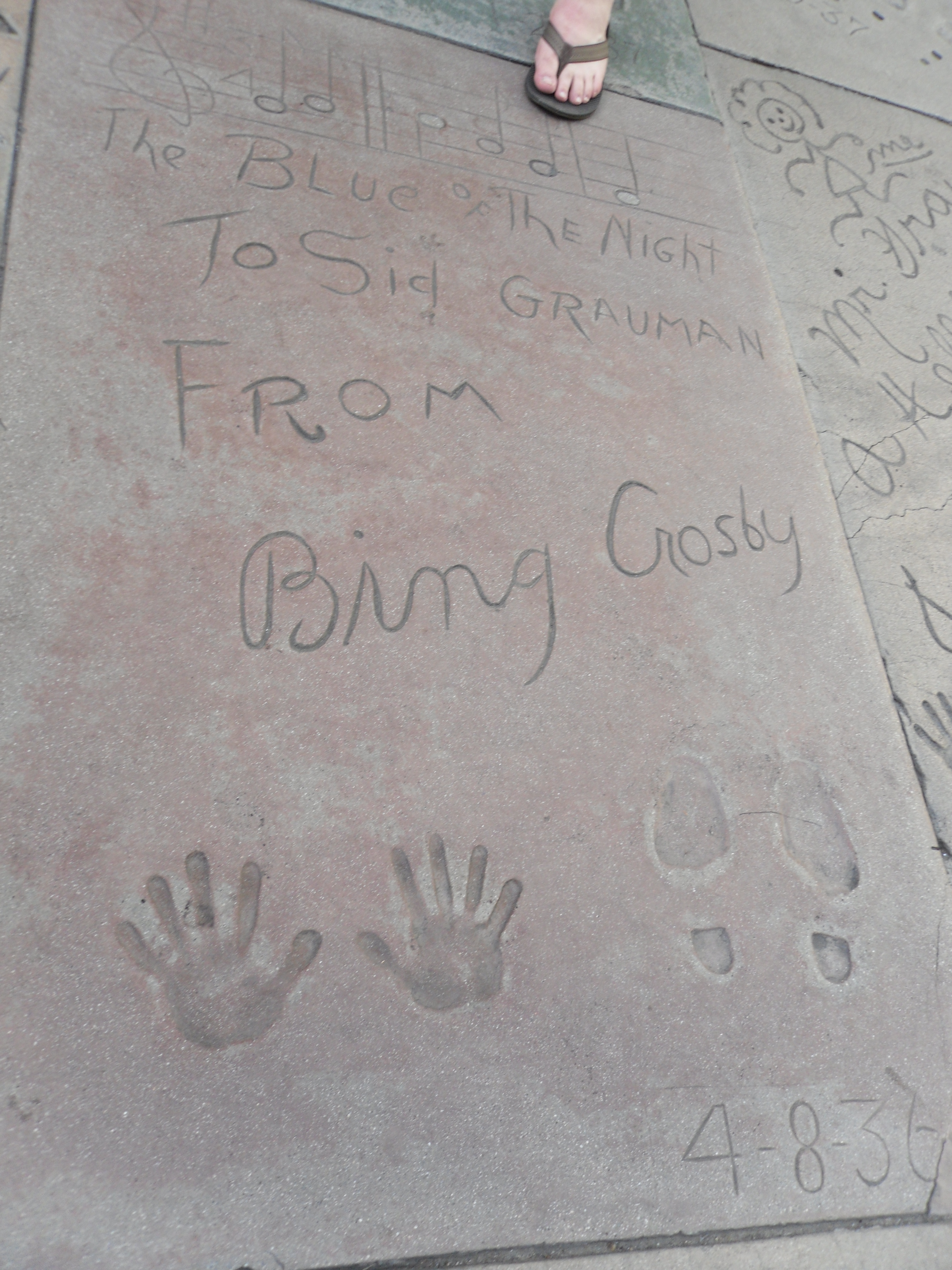 Bing Crosby's signature at Grauman's Chinese Theatre